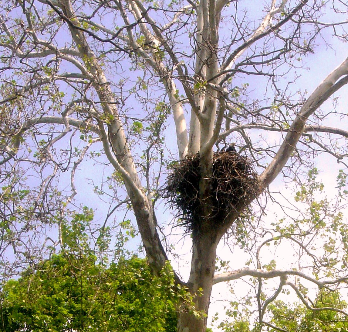 Bald eagle sitting on nest above the Middle Fork of the Vermillion River (Wabash river basin) in east central Illinois.